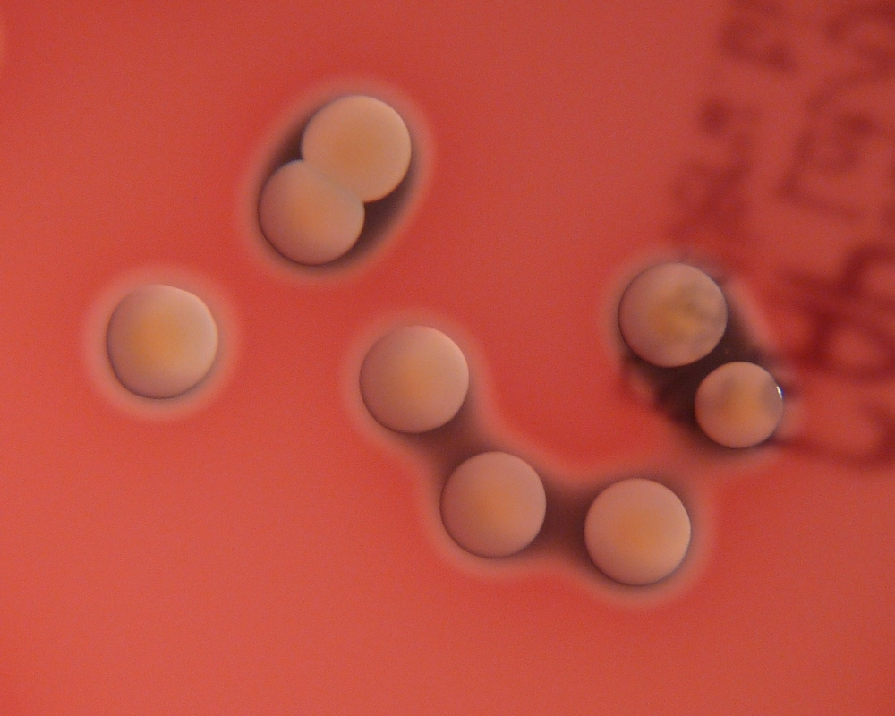 Staphylococcus aureus on Columbia blood agar. Note the golden yellow pigment and beta hemolysis around colonies. Cultivation 48 hours, 37°C.